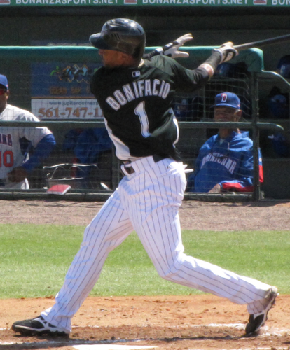 Batting at a spring training game vs the Dominican Republic national baseball team on 3/03/09. I took this picture. 05:02, 13 March 2009 . . Rabbethan . . 414×500 (210 KB)